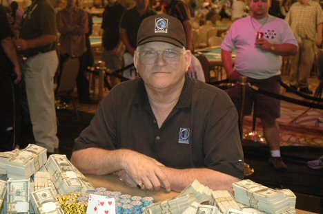 T. J. Cloutier in 2005 World Series of Poker - Rio Las Vegas.